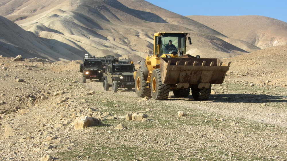 Description from B'Tselem source: "Israeli Authorities destroy Palestinian shepherding community in the Jordan Valley, 8.1.14: At about 6:30 A.M. this morning, Israeli military forces and Civil Administration personnel arrived at the Palestinian community of Khirbet ‘Ein Karzaliyah in the northern Jordan Valley. They then proceeded to demolish all of the community’s buildings, thereby rendering homeless the entire population – three families comprised of 10 adults and 15 minors. The residents have been left with no shelter for themselves or their livestock in the harsh winter weather conditions. The Israeli military also demolished the only water-pipe available to the residents." Photo caption: "A bulldozer of the Israeli Civil Administration accompanied by military jeeps, 8.1.14"